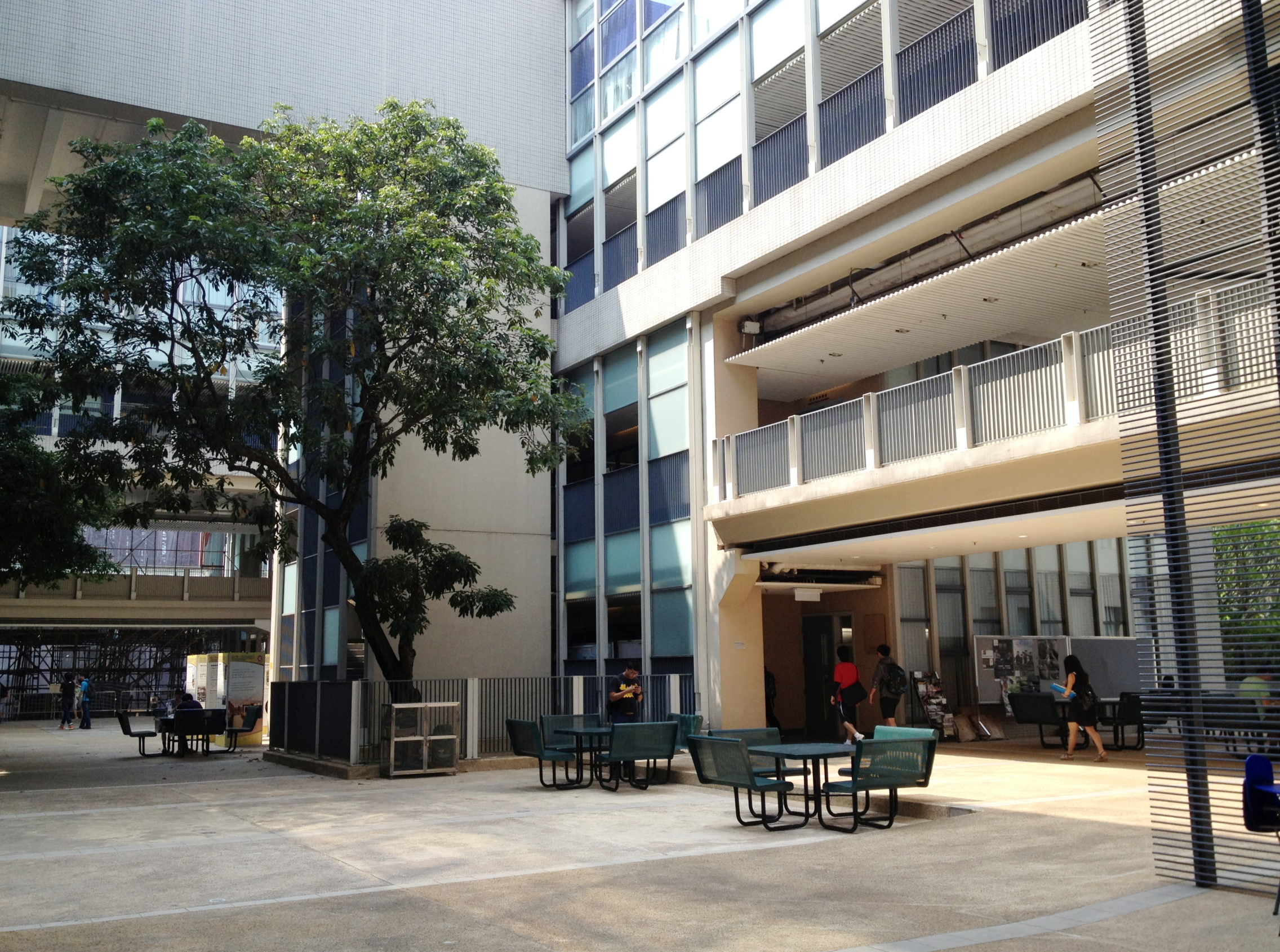 Lingnan University NAB Open space